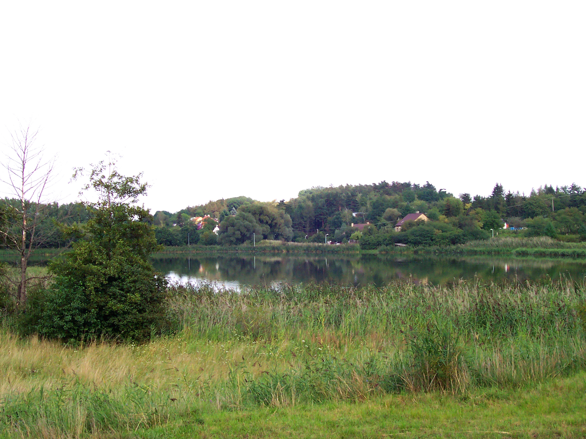 V Rohožníku pond in Dubeč, Prague